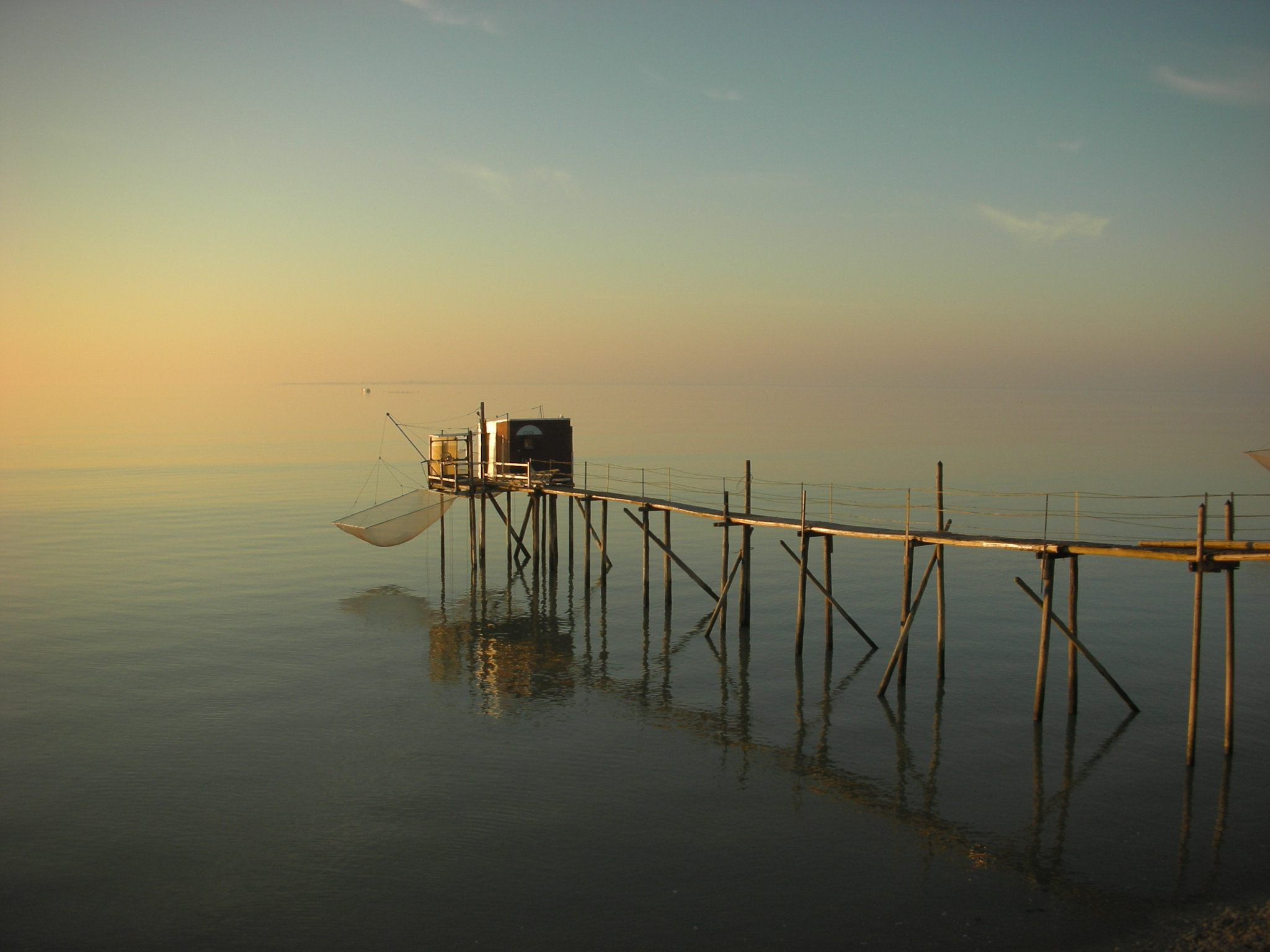 Carrelet at Esnandes (France)